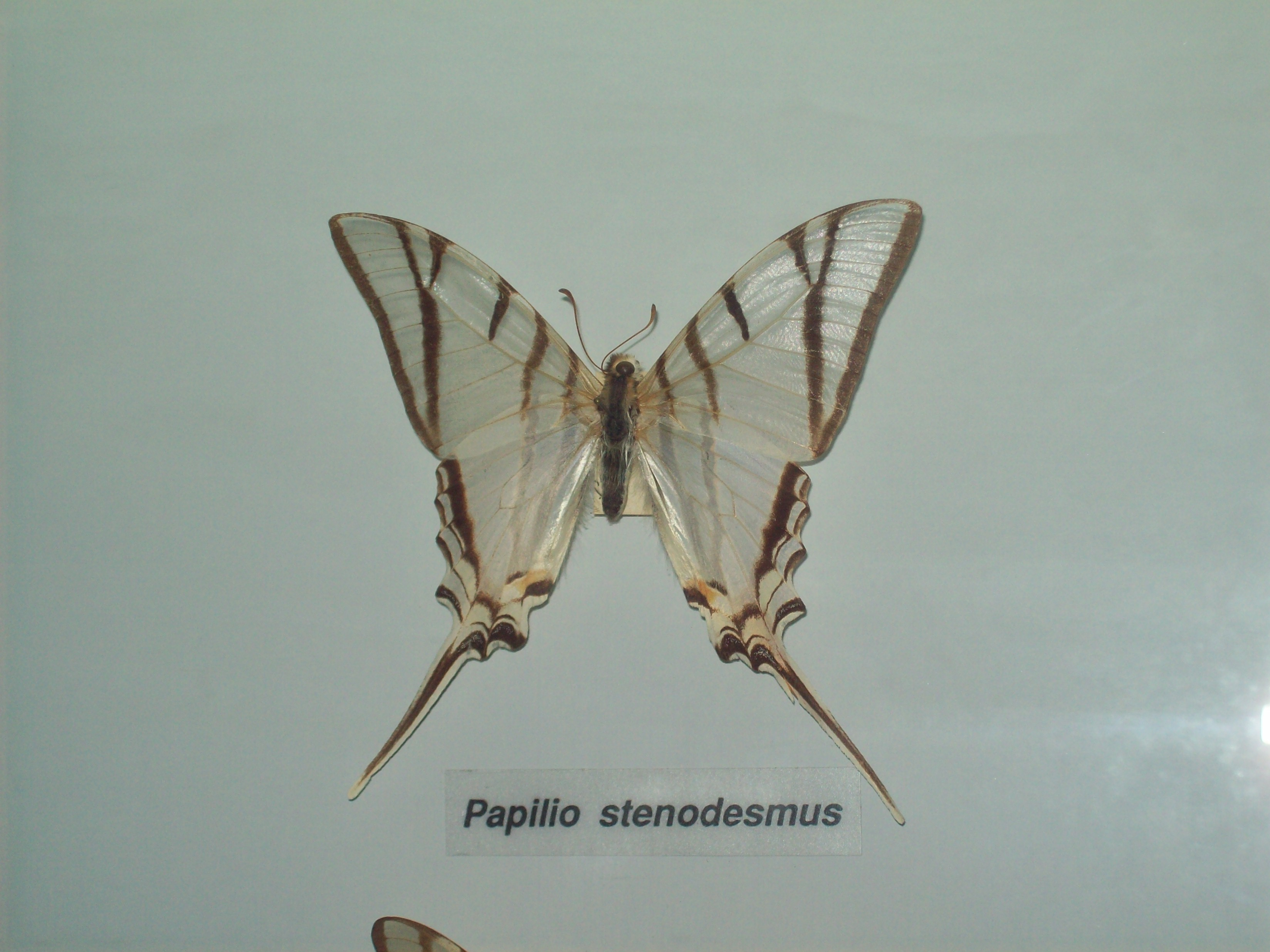 .Protesilaus stenodesmus (Rothschild & Jordan, 1906) (formerly placed in genus Papilio). Museo de La Plata